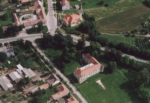 Egyed, Hungary, aerialphotography This is a photo of a monument in Hungary, Identifier: 4034